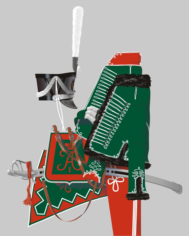 Trooper of Olviopol Hussar regiment’s full dress: dolman, pelisse, barrel sash, breeches, shako (here of 1812), shabraque, sabretache & sabre. Russian army of 1812